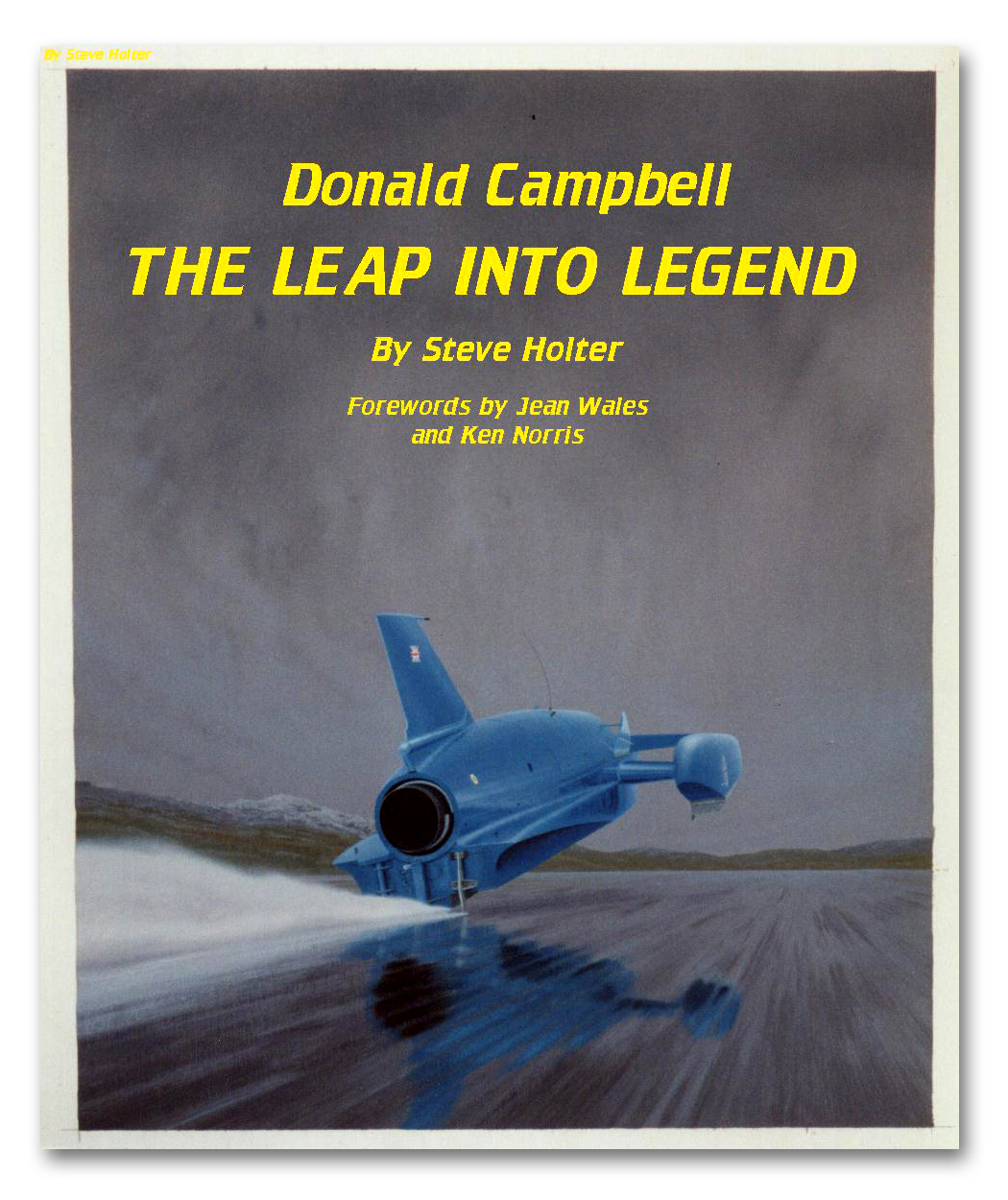 This is a painting by Arthur Benjamins used as the cover of a book.